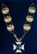 Grand Collier of the Fondation du Mérite européen